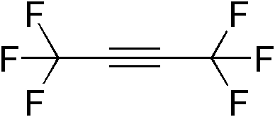 chemical structure of Hexafluorobutyne